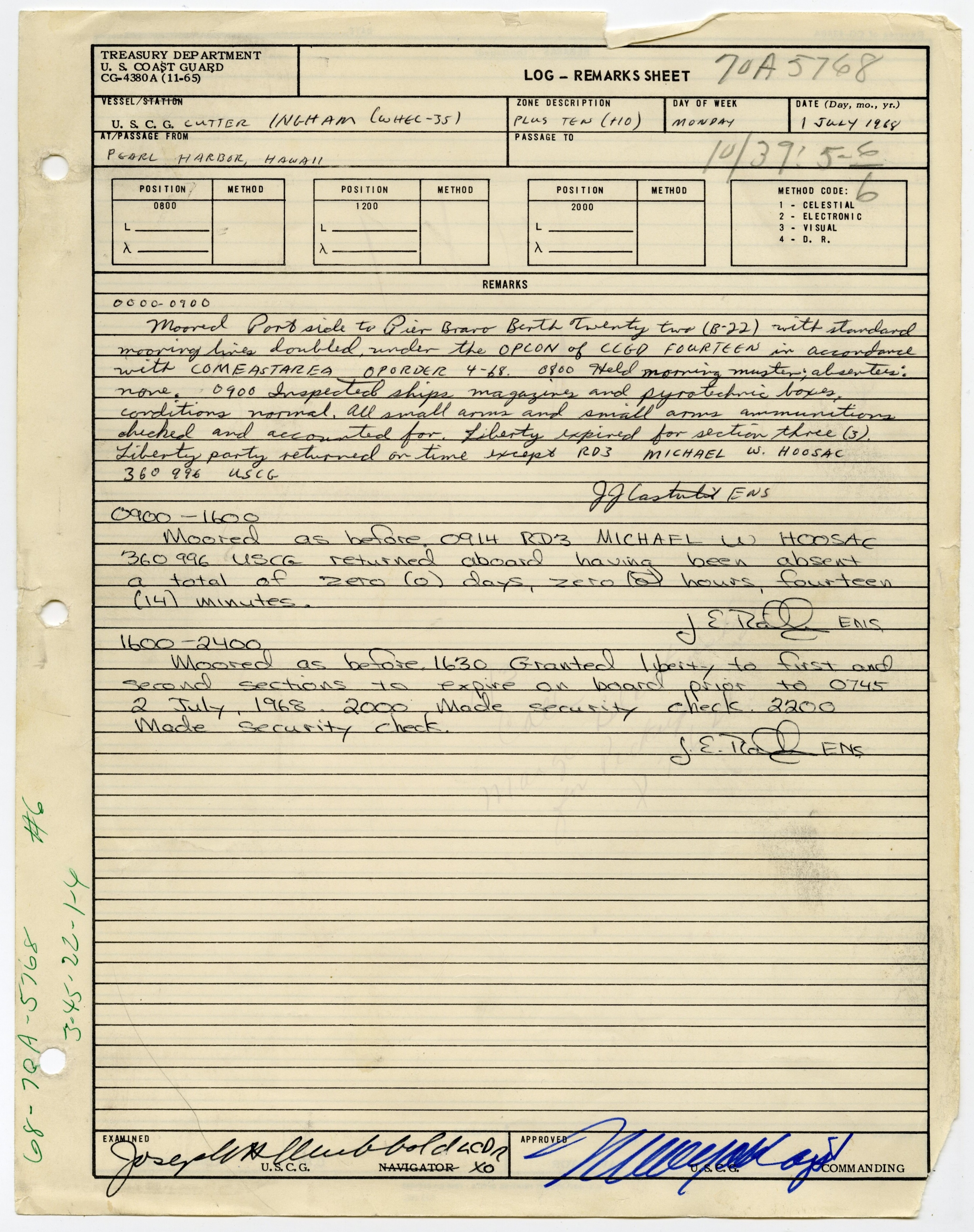 USCGC Ingham (WHEC-35) Logbook, July 1968